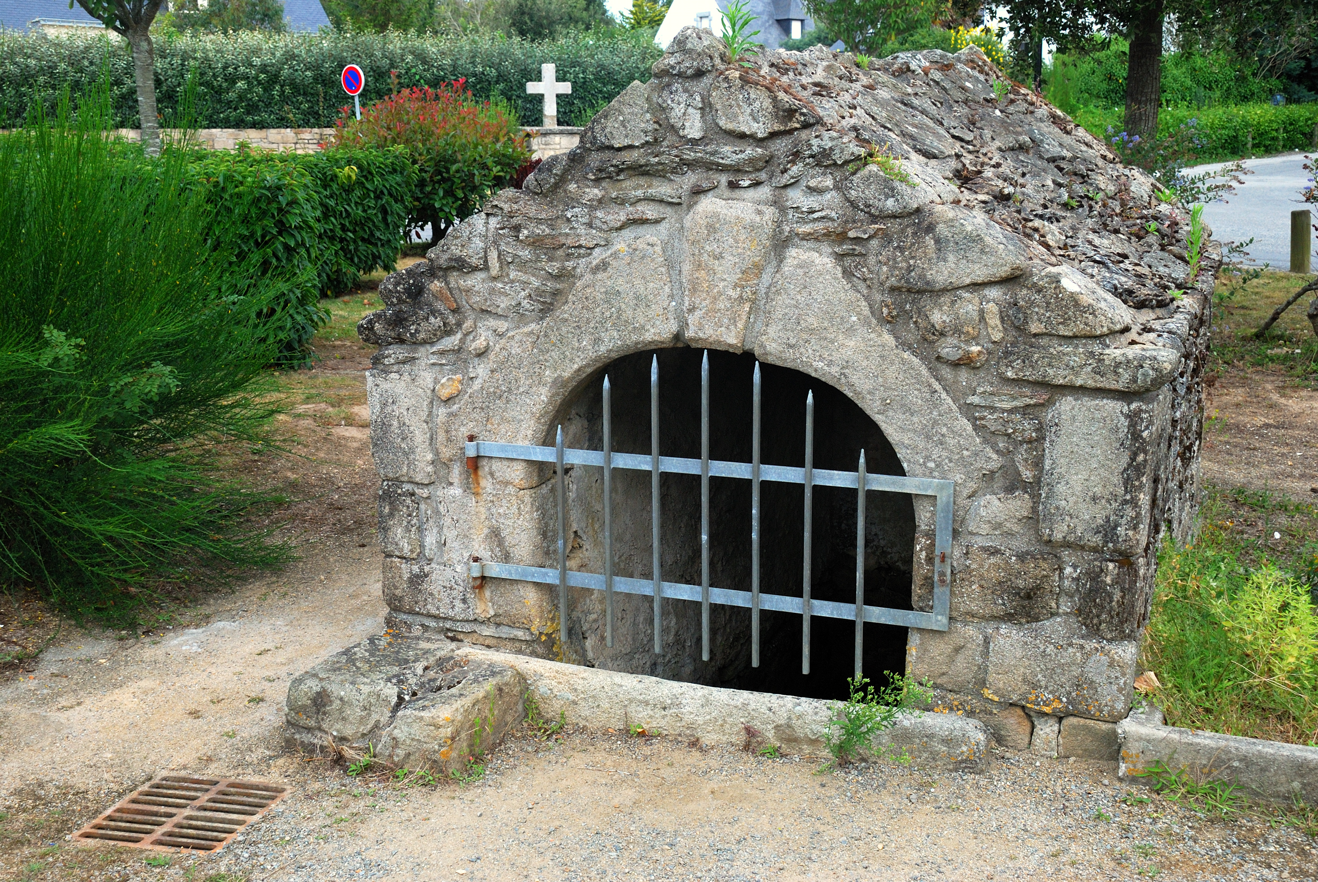 Saint-Gildas-de-Rhuys: fountain (Morbihan, France)